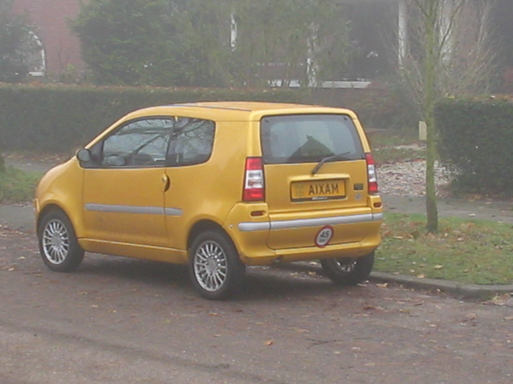 Aixam moped car. Notice the max 45 km/h sign in the rear.